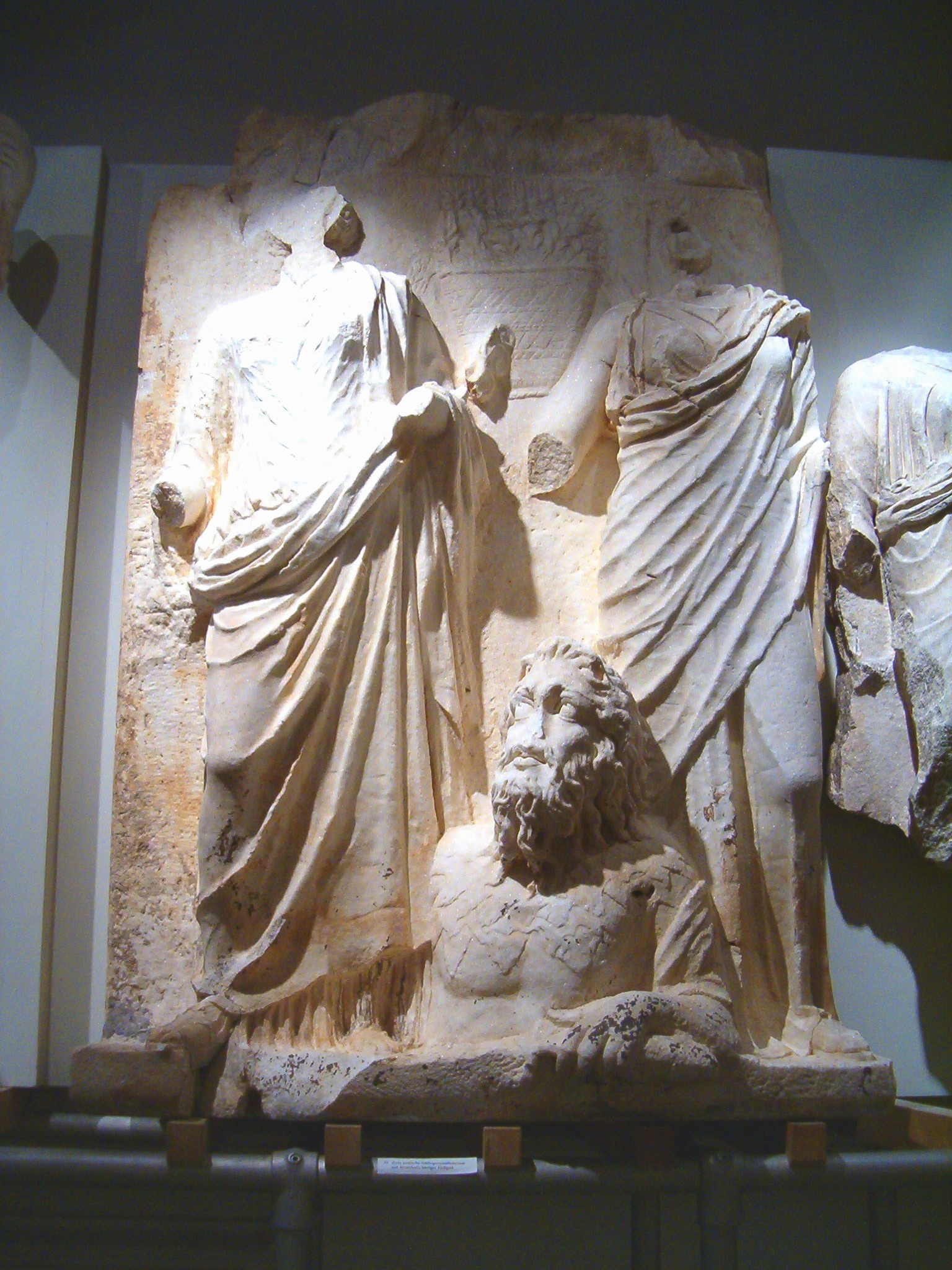 Personifications of Apameia and Zeugma; from Ephesos (Ephesos-Museum, Hofburg, Vienna)